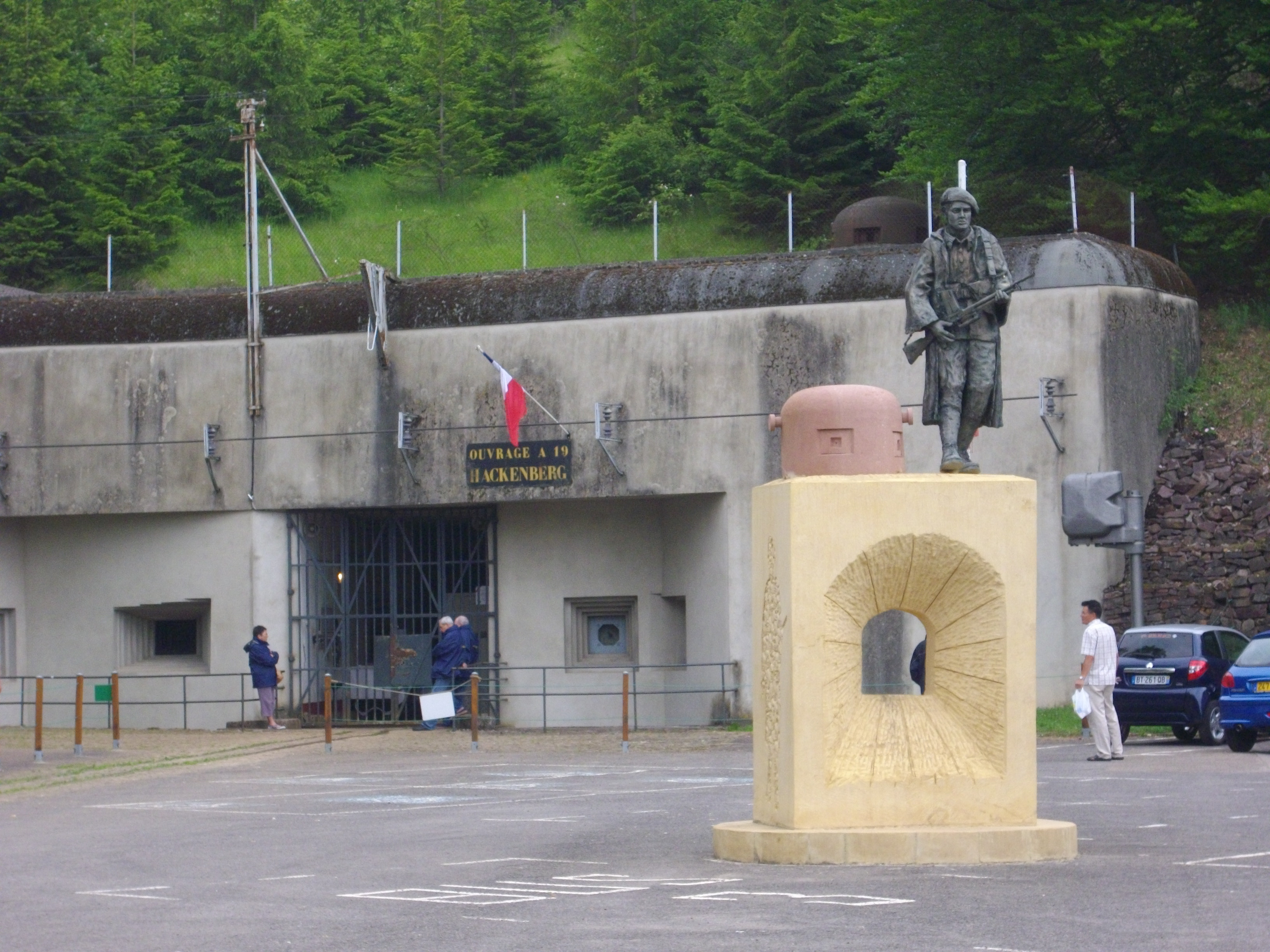 Entrance of the A19 block in Hackenberg (Veckring, Moselle, France)